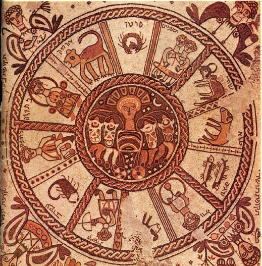 Mosaic pavement of a 6th century synagogue at Beth Alpha, Jezreel Valley, northern Israel. It was discovered in 1928. Signs of the zodiac surround the central chariot of the Sun (a Greek motif), while the corners depict the 4 "turning points" ("tekufot") of the year, solstices and equinoxes, each named for the month in which it occurs--tequfah of Tishrei, (tequfah of Tevet), tequfah of Ni(san), tequfah of Tamuz.